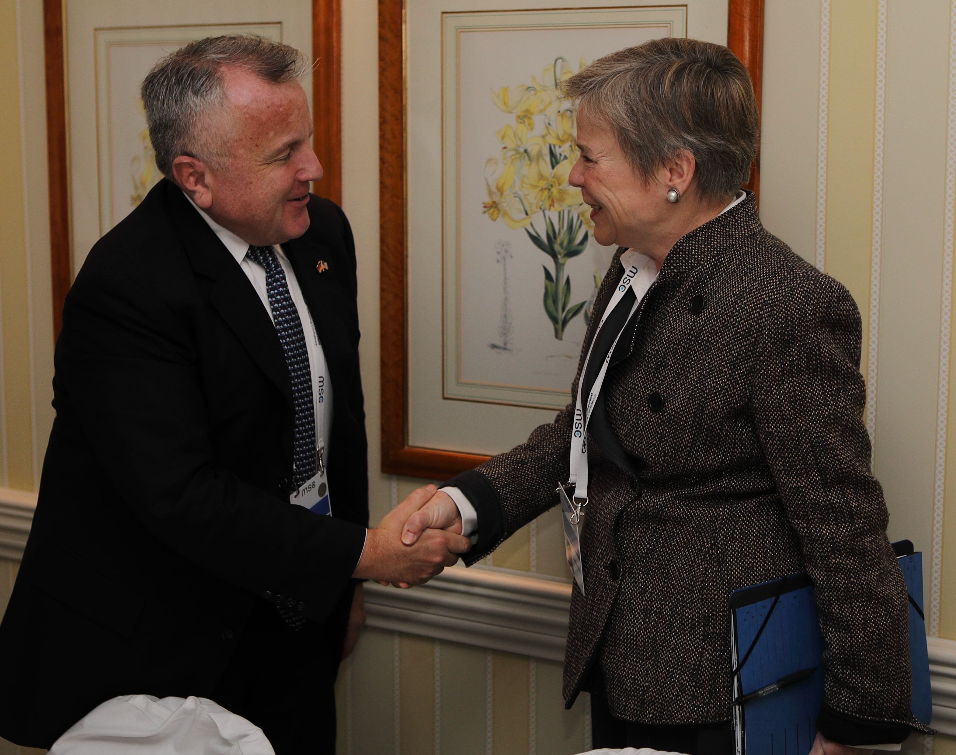 Deputy Secretary of State John Sullivan meets with NATO Deputy Secretary General Rose Gottemoeller in Munich, Germany on February 17, 2018. [State Department photo/ Public Domain]